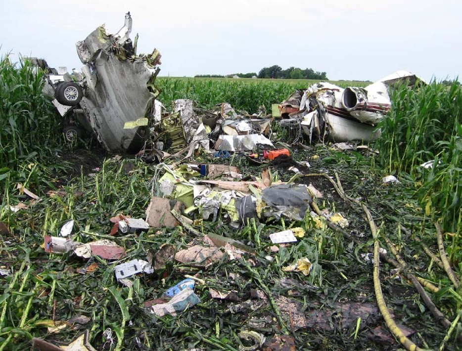 The crew made a go-around attempt after the aircraft touched down, but it overran the runway, hit Approach Lighting System fixtures, stalled and crashed, with the main wreckage coming to rest 2,400 ft (730 m) from the runway end.